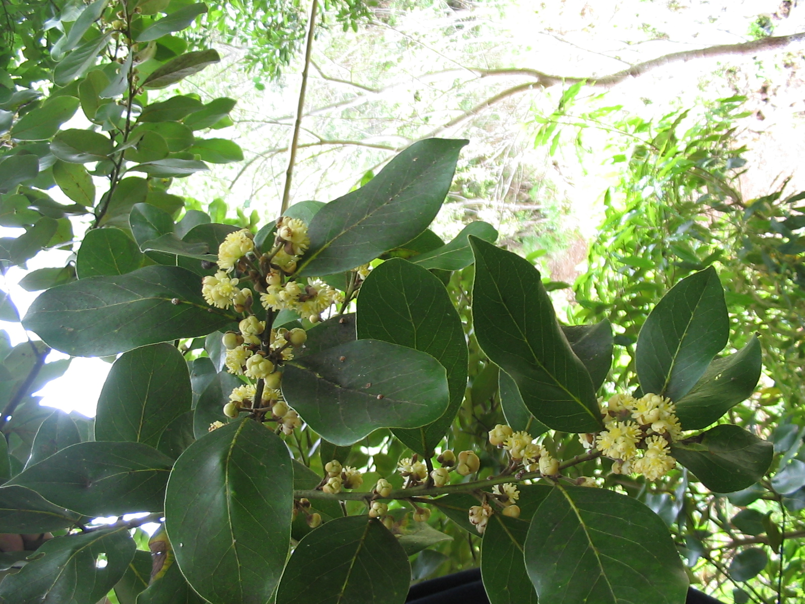 Azoren-Lorbeer (Laurus azorica) - Flowers